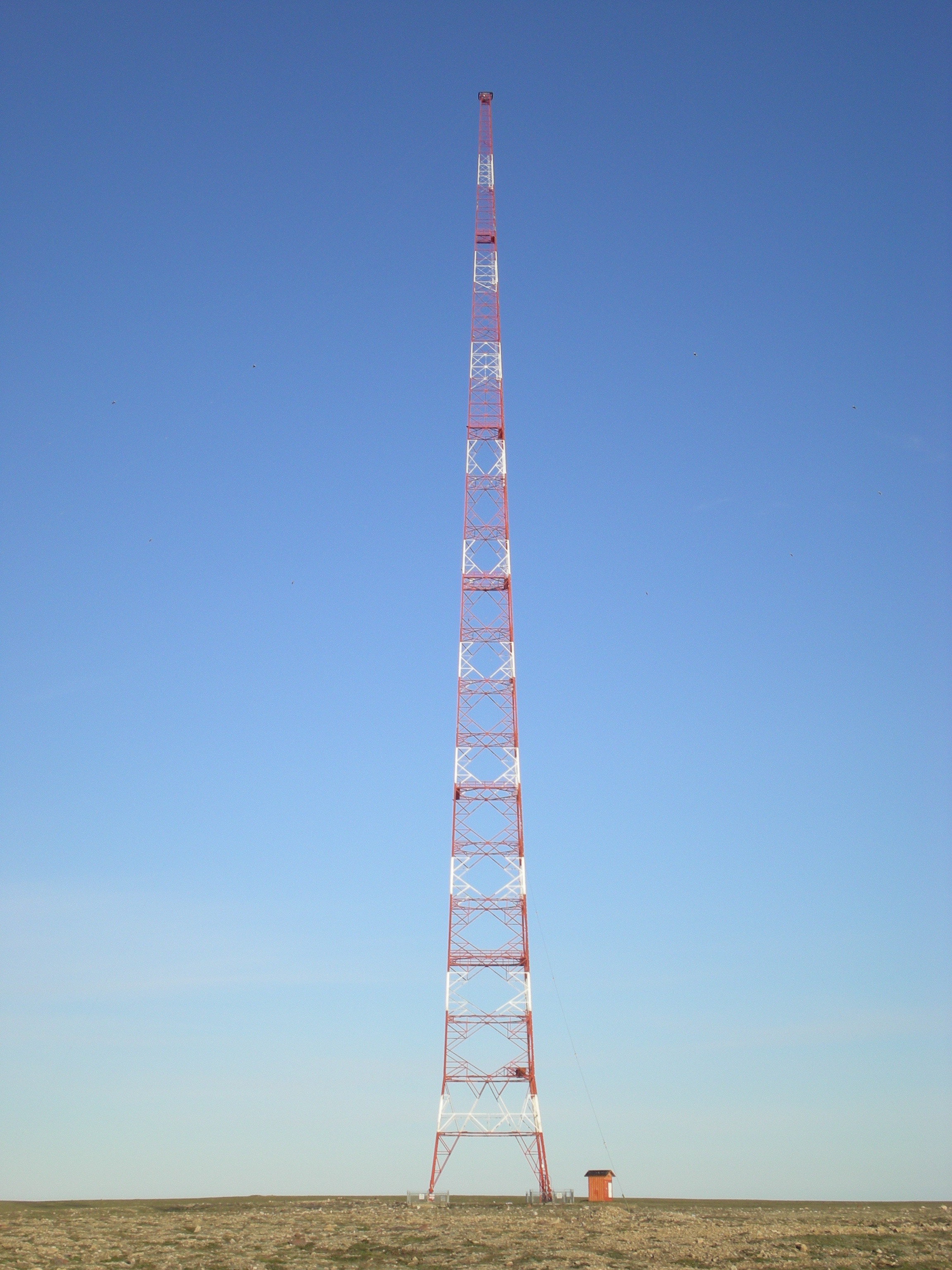 View of the Cambridge Bay LORAN tower. Now used as an NDB.